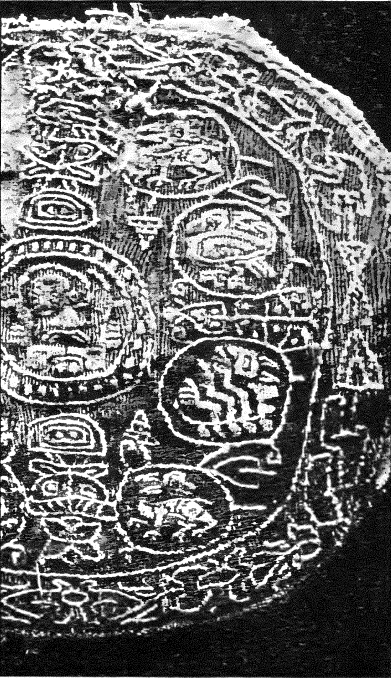 This tapestry, discovered in a tomb in Upper Egypt, was embroidered with red and white threads. Only the white linen threads have survived. The deterioration of the red woolen threads is visible in the upper left corner.